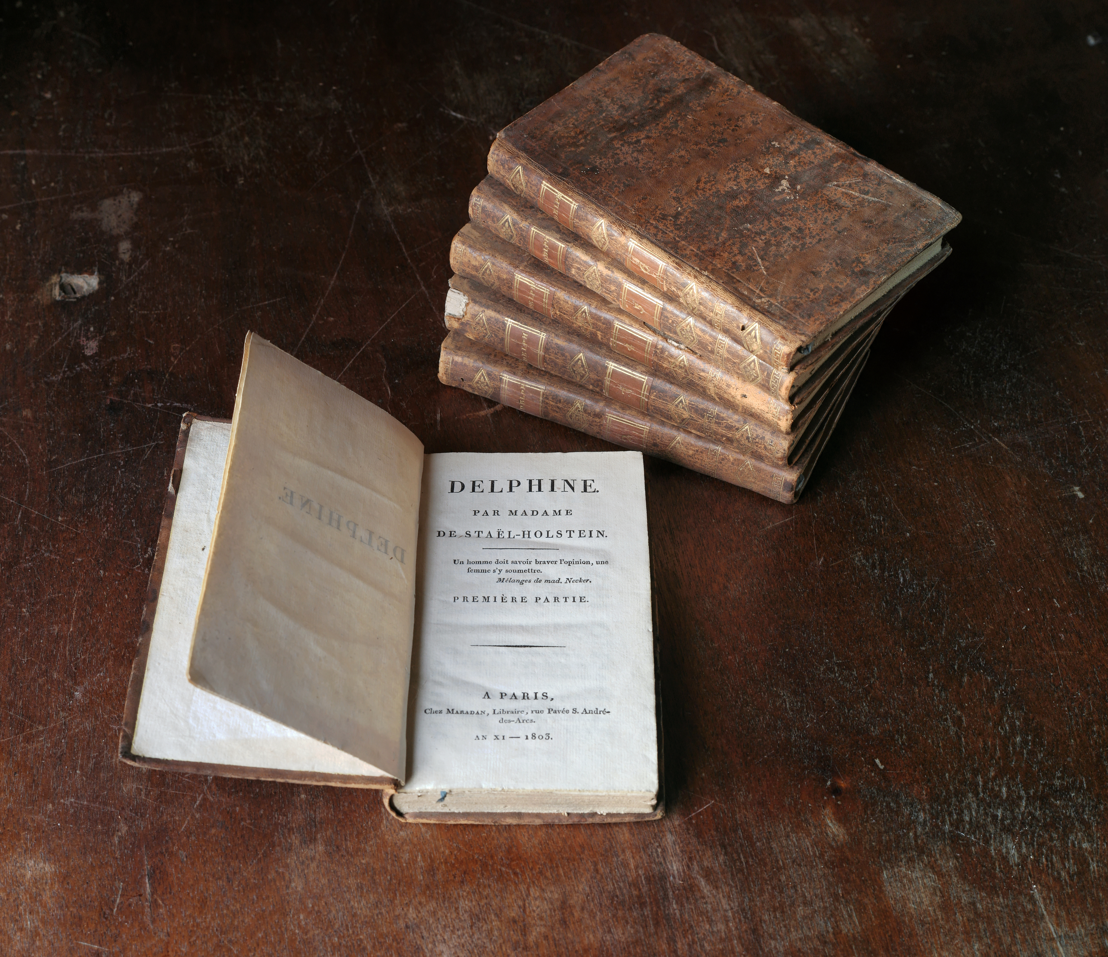 Delphine, novel by Madame de Staël, Paris 1803.